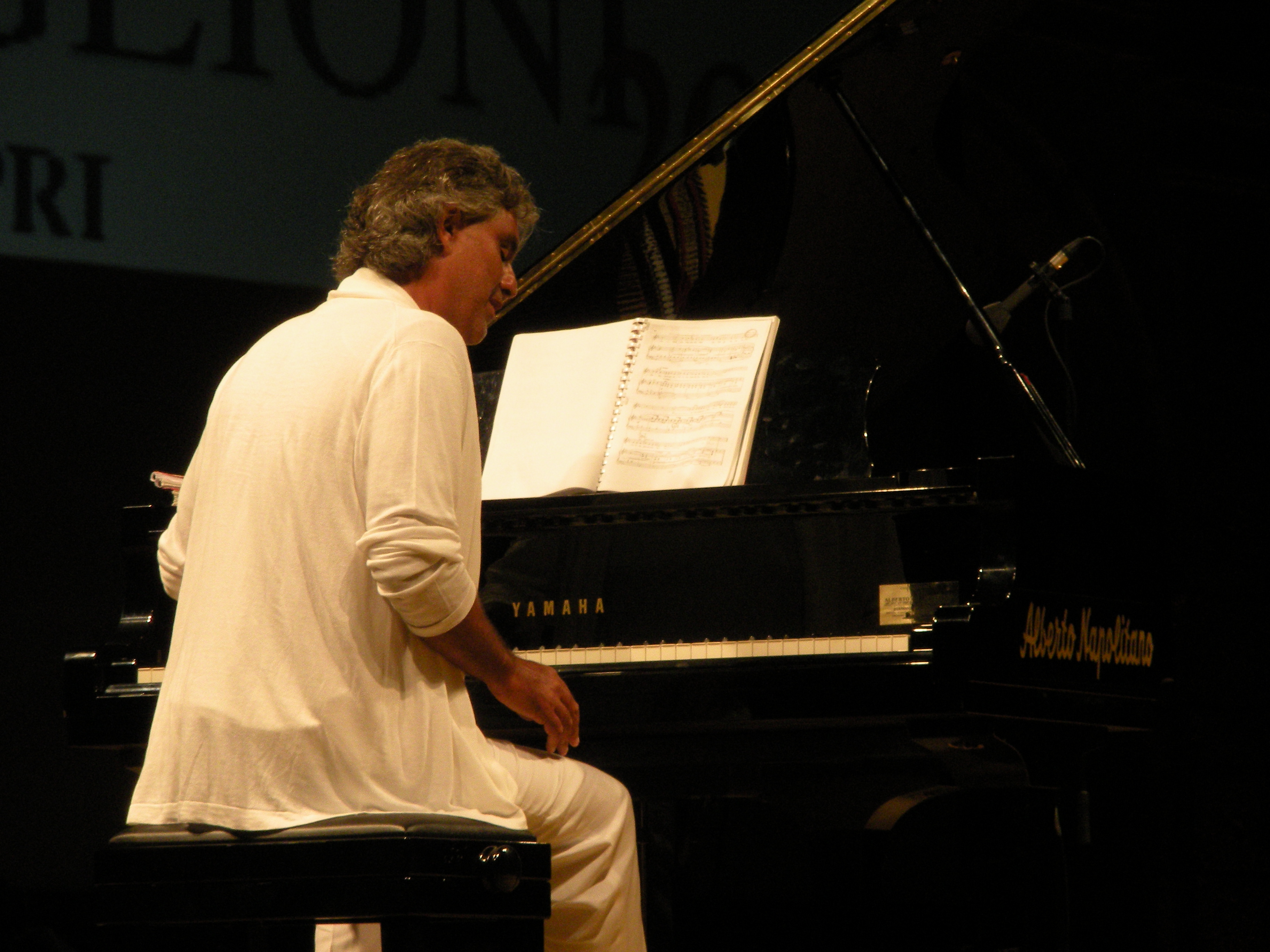 Andrea Bocelli, Italian pop tenor.